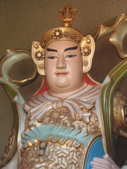 Skanda bodhisattva.